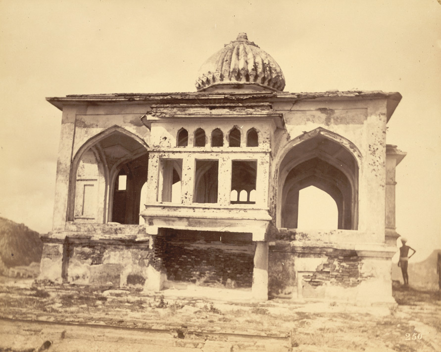 Throne on the Krishnagiri, Gingi [Gingee], South Arcot District